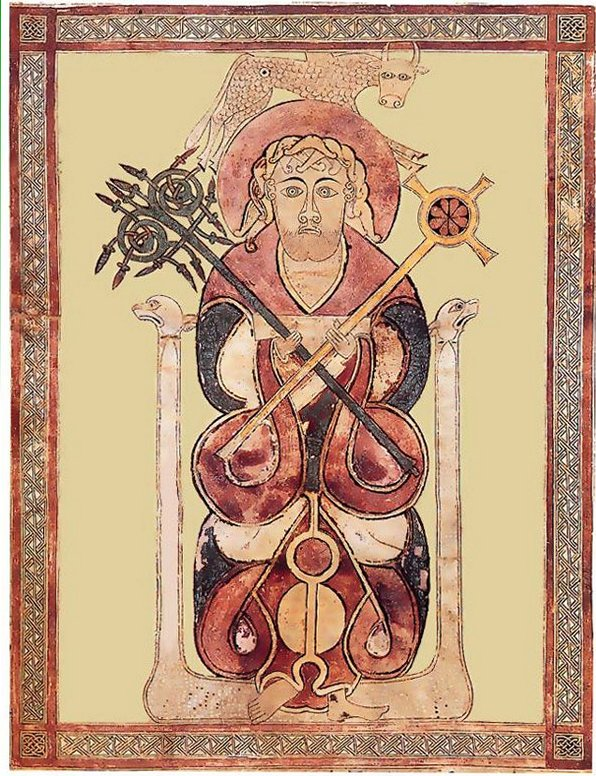 Lichfield Gospels (Lichfield, Cathedral Library)